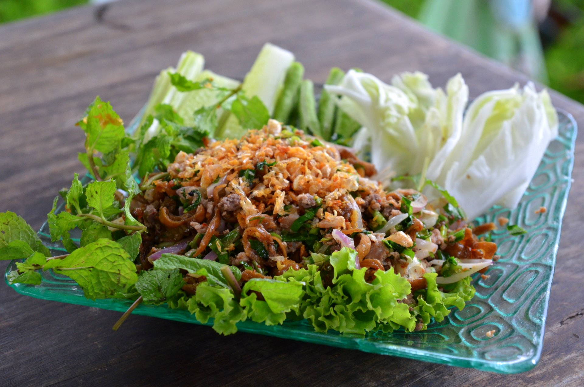 Lap mu krop (Thai script: ลาบหมูกรอบ) is a variation on the standard lap, in that it is made with crispy deep-fried pork instead of quickly stir-fried or cooked pork.